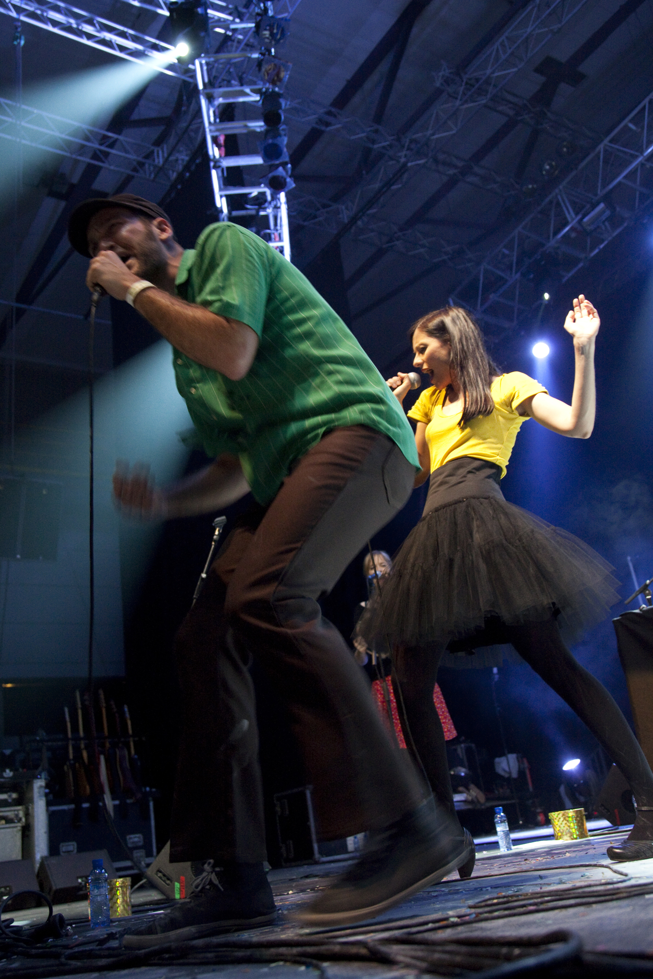 Delafé y las flores azules at Escena BCN 2010 in Sant Jordi Club of Barcelona